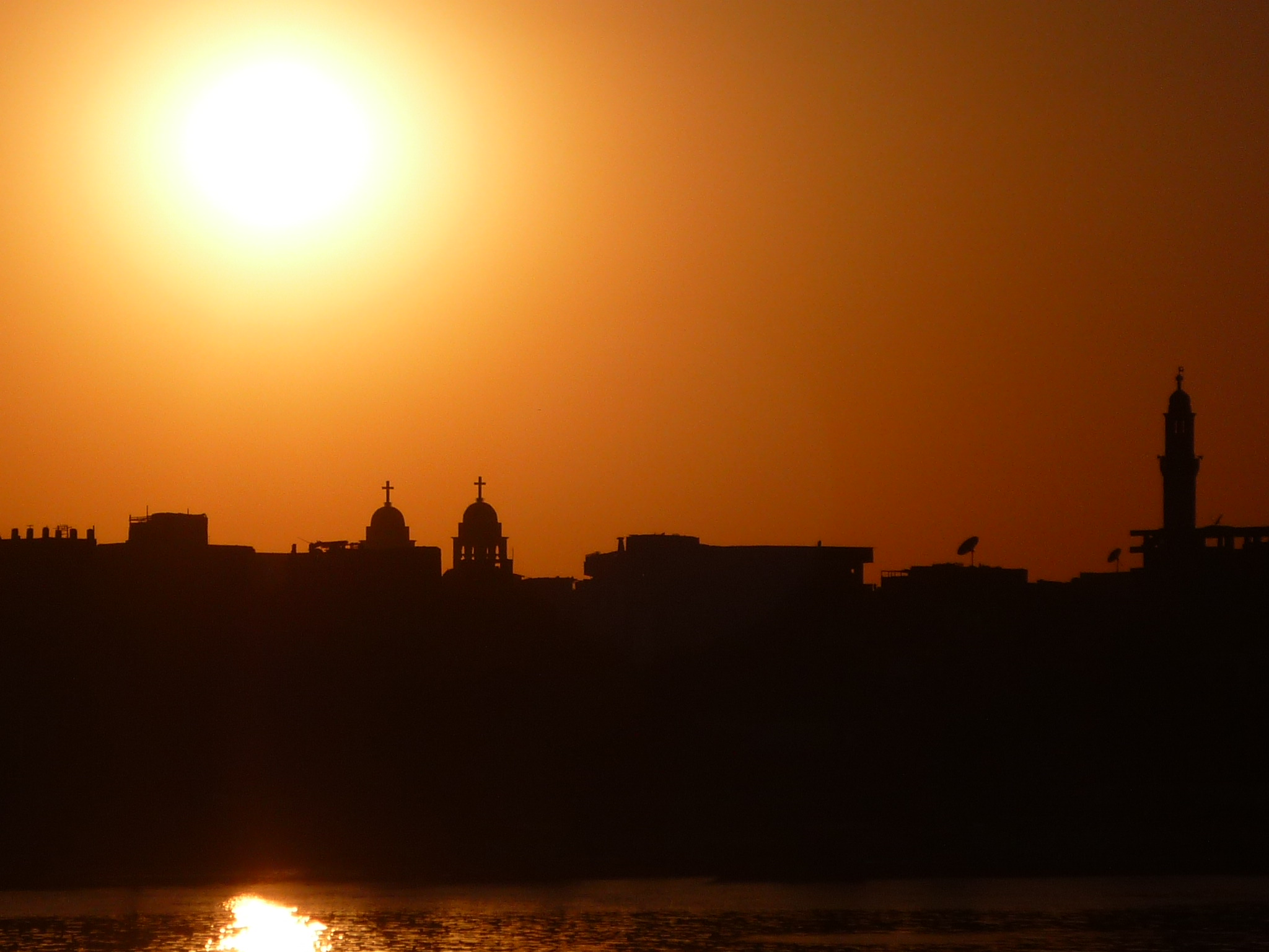 Esna sunset with minaret and copt bells tower, Egypt